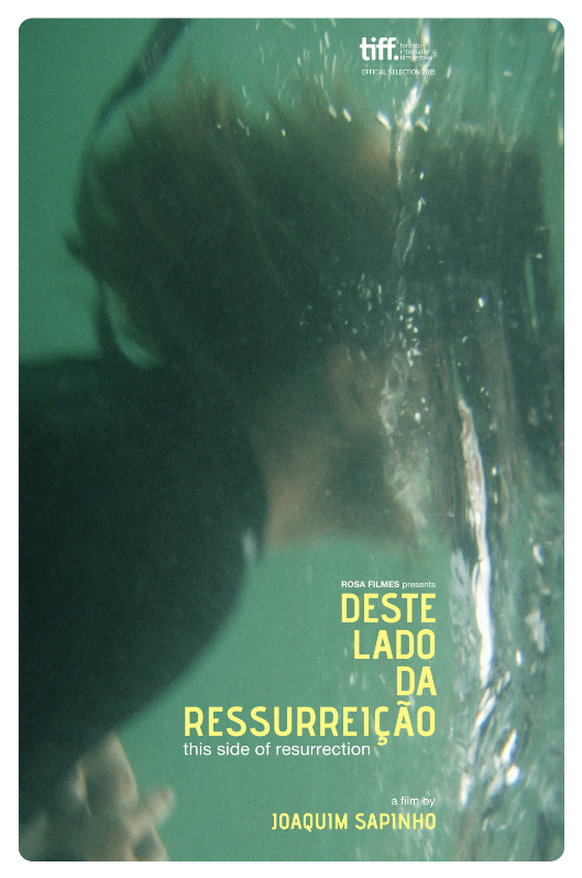 Original 2011 poster from the premiere at the Toronto International Film Festival of the film "This Side of Resurrection", directed by Joaquim Sapinho. Poster by Pedro Fernandes Duarte.